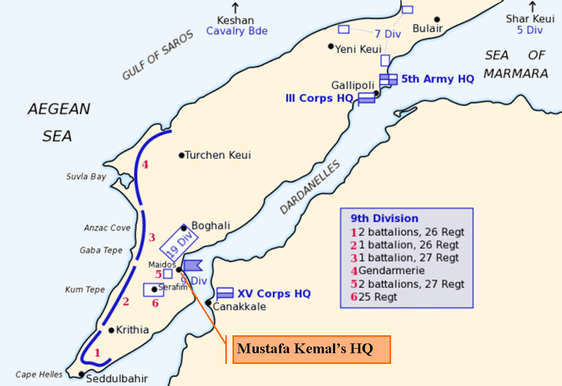 original image is from wikipedia File:Map of Turkish forces at Gallipoli April 1915.png